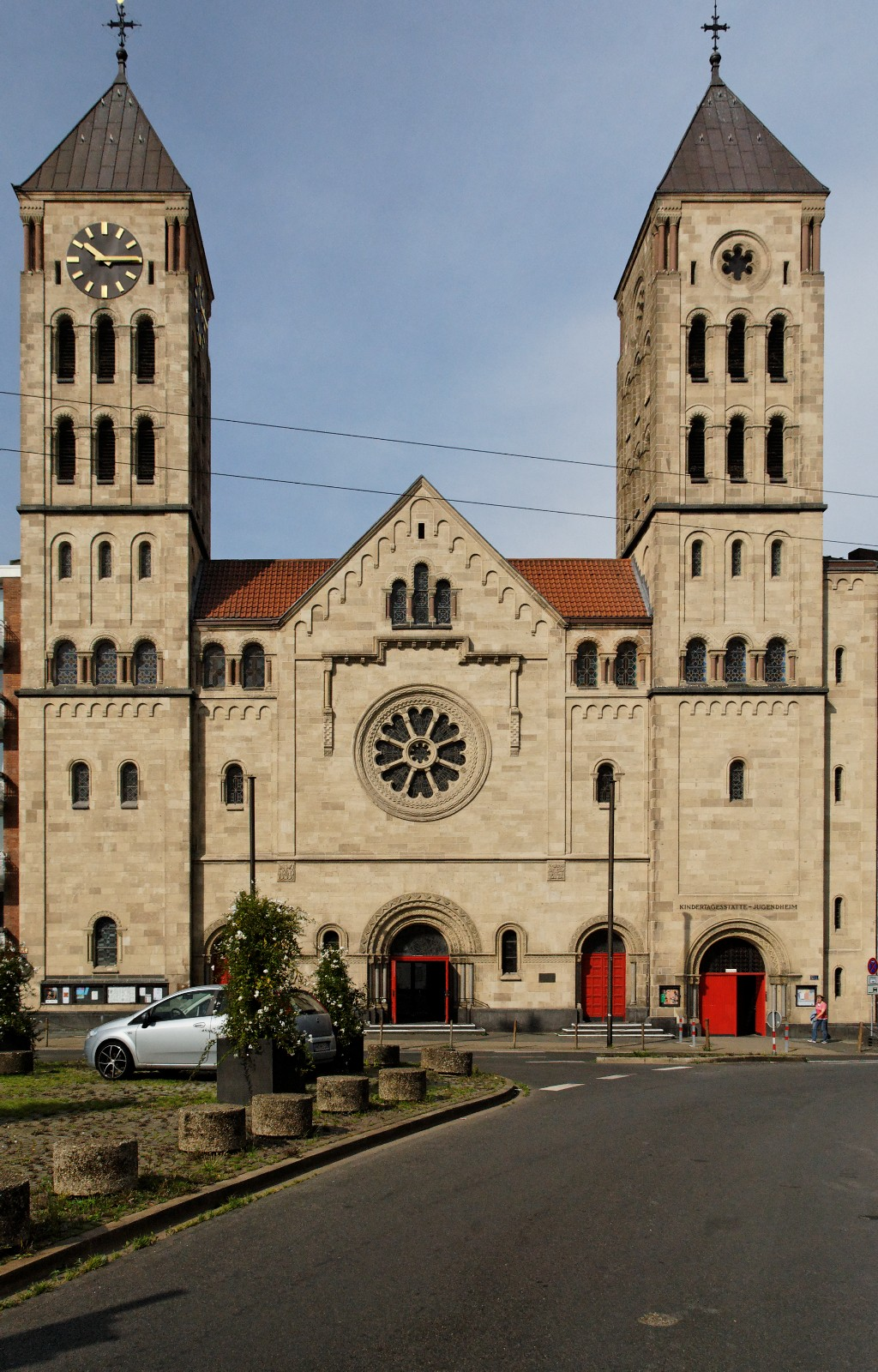 Saint Elizabeth Church in Düsseldorf-Stadtmitte, Germany